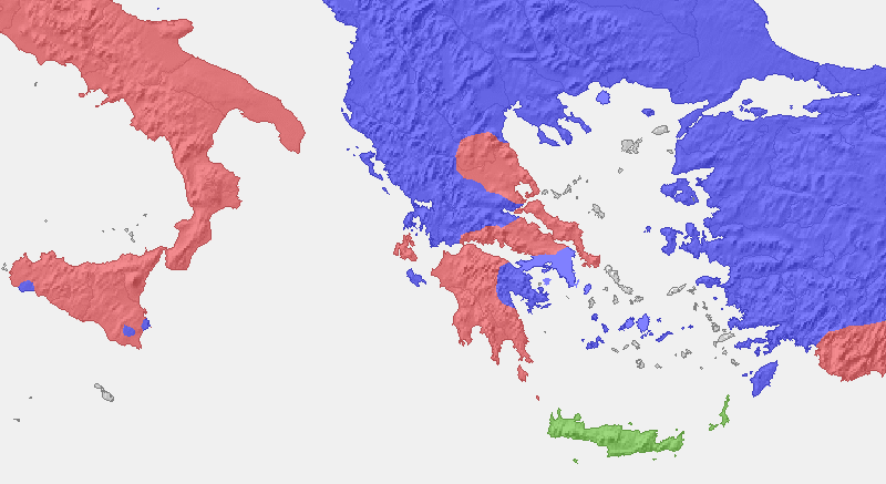 Distribution of the ancient Greek epichorical alphabets according to Adolf Kirchhoff (1887)